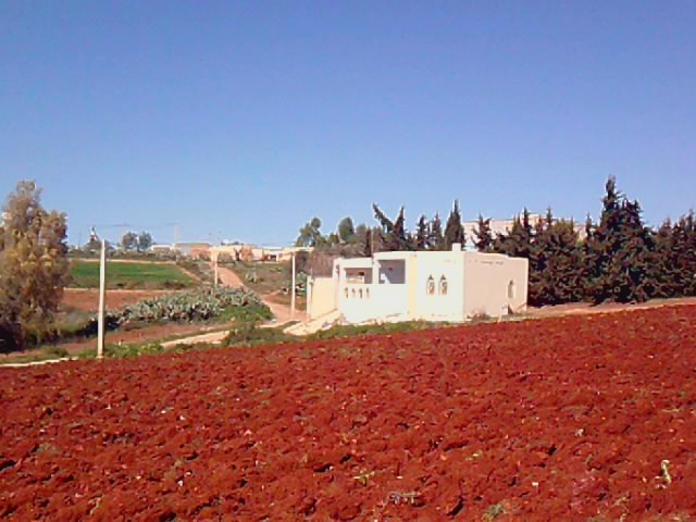 Photo from Igar Azuag area in the village of Awaan Thazvat Nadhar